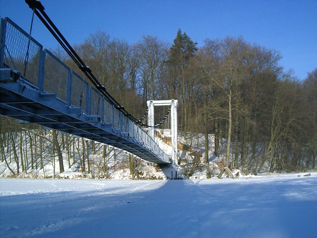 Suspension bridge on Raduń lake in winter